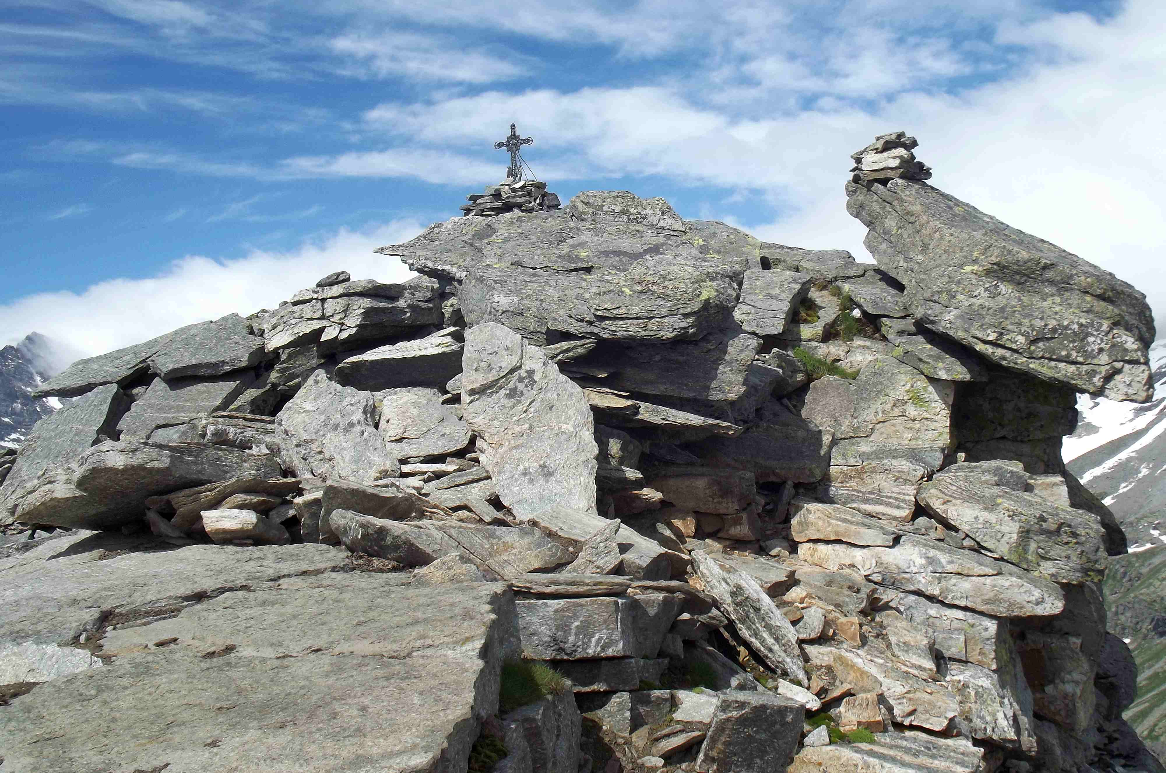 Mount Barrouard (Graian Alps, TO): the summit